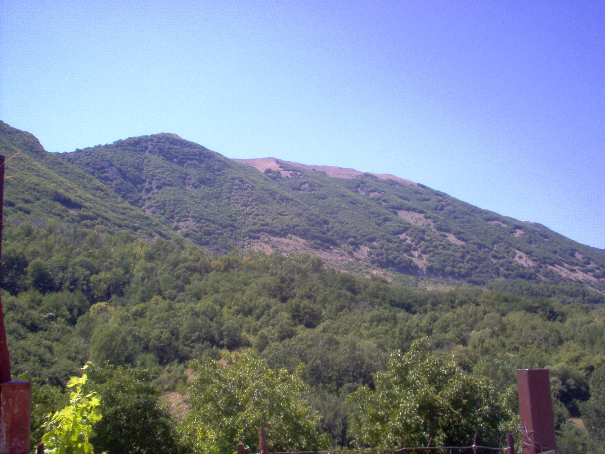 La Piaggia Mount (1637 meters AMSL) as seen from Capo la villa (Tornimparte - near L'Aquila).